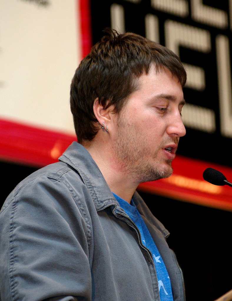 Video Game designer Harvey Smith at the Montreal International Games Summit in 2007